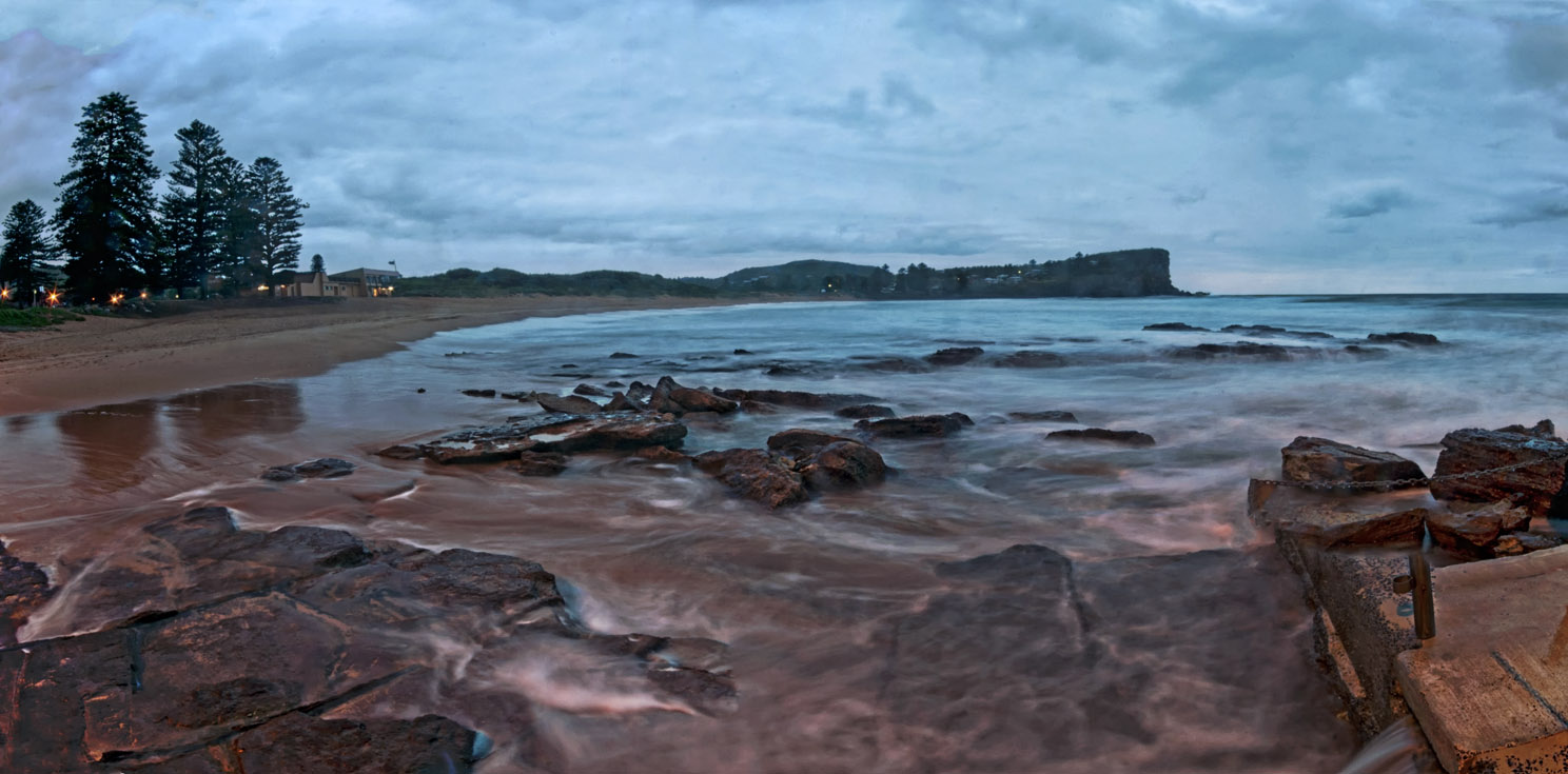 03/03/2012 A panorama of Avalon composed of five individual photographs. I was hoping for another sunrise like last Sunday. Alas I settled for cloud and not much of anything. Still nice to get out and about.